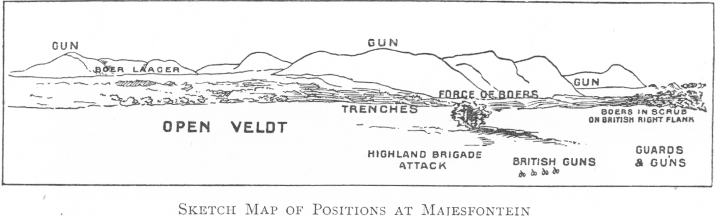 Sketch of the Battlefield of Magersfontein, 11 December 1899, looking north from the British position at Modder River towards the Boer position in the Magersfontein Hills